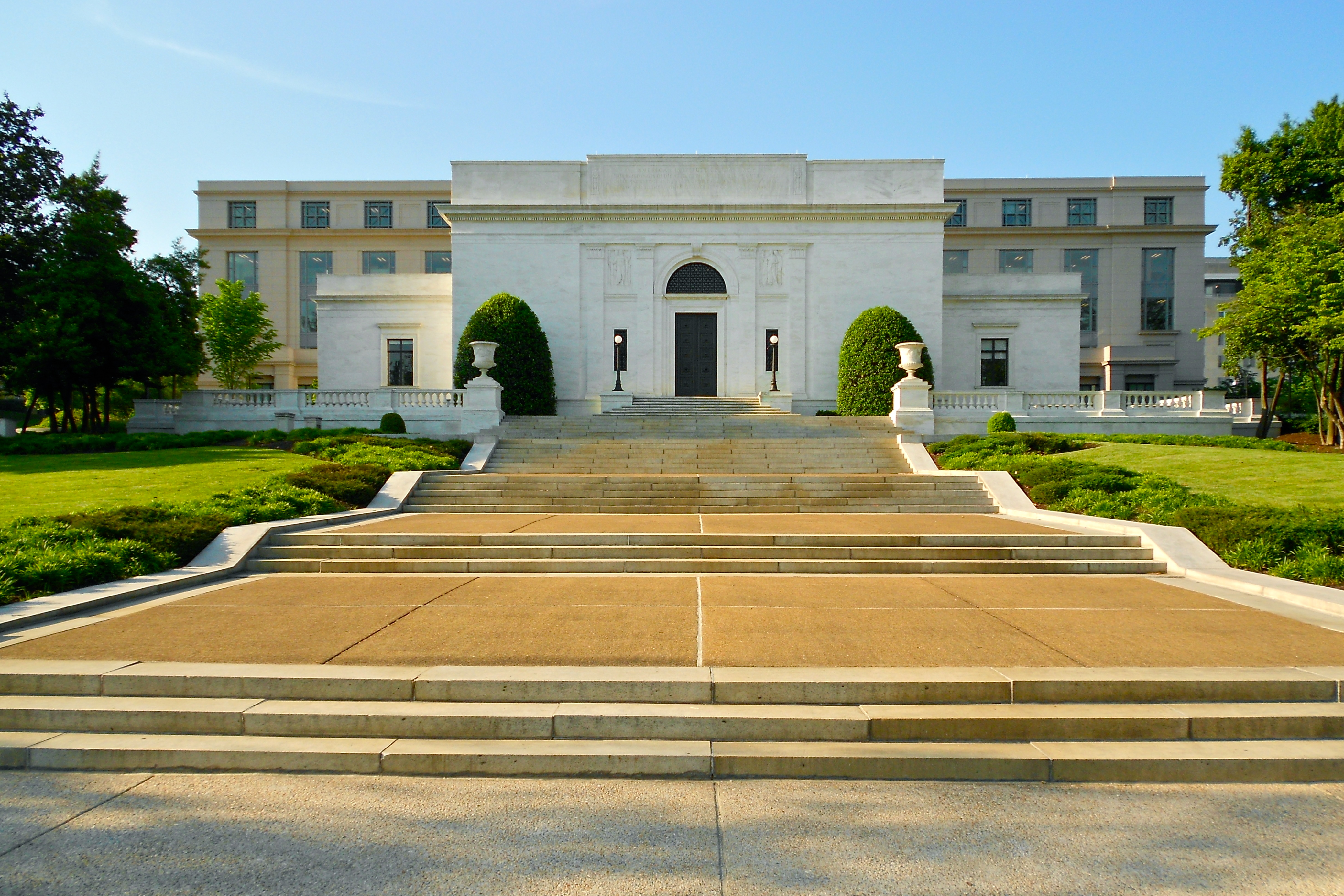 American Institute of Pharmacy building on the National Mall in Washington, DC. On the NRHP